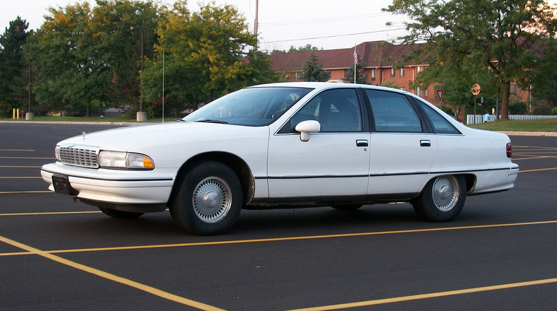 1991 Chevrolet Caprice sedan photographed in Lansing, Michigan